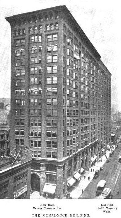 Monadnock Block, 53 West Jackson Boulevard, Chicago, Cook County, IL, showing original 1891 masonry construction and newer 1893 veneer construction.